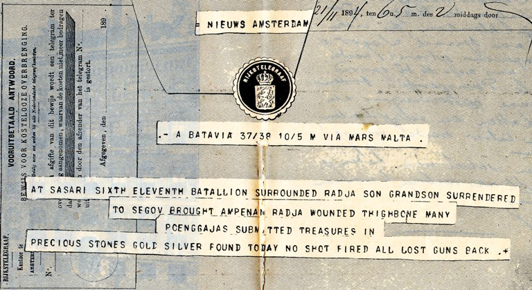 Telegram uit Lombok